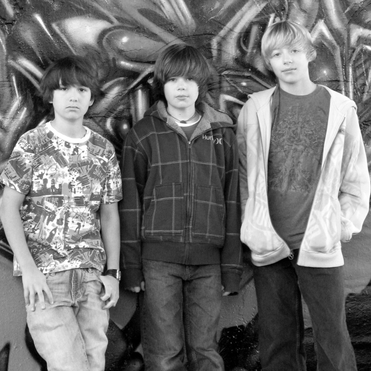 Promotional photo of Portland kid rock band, Still Pending, for their CD, Graffiti